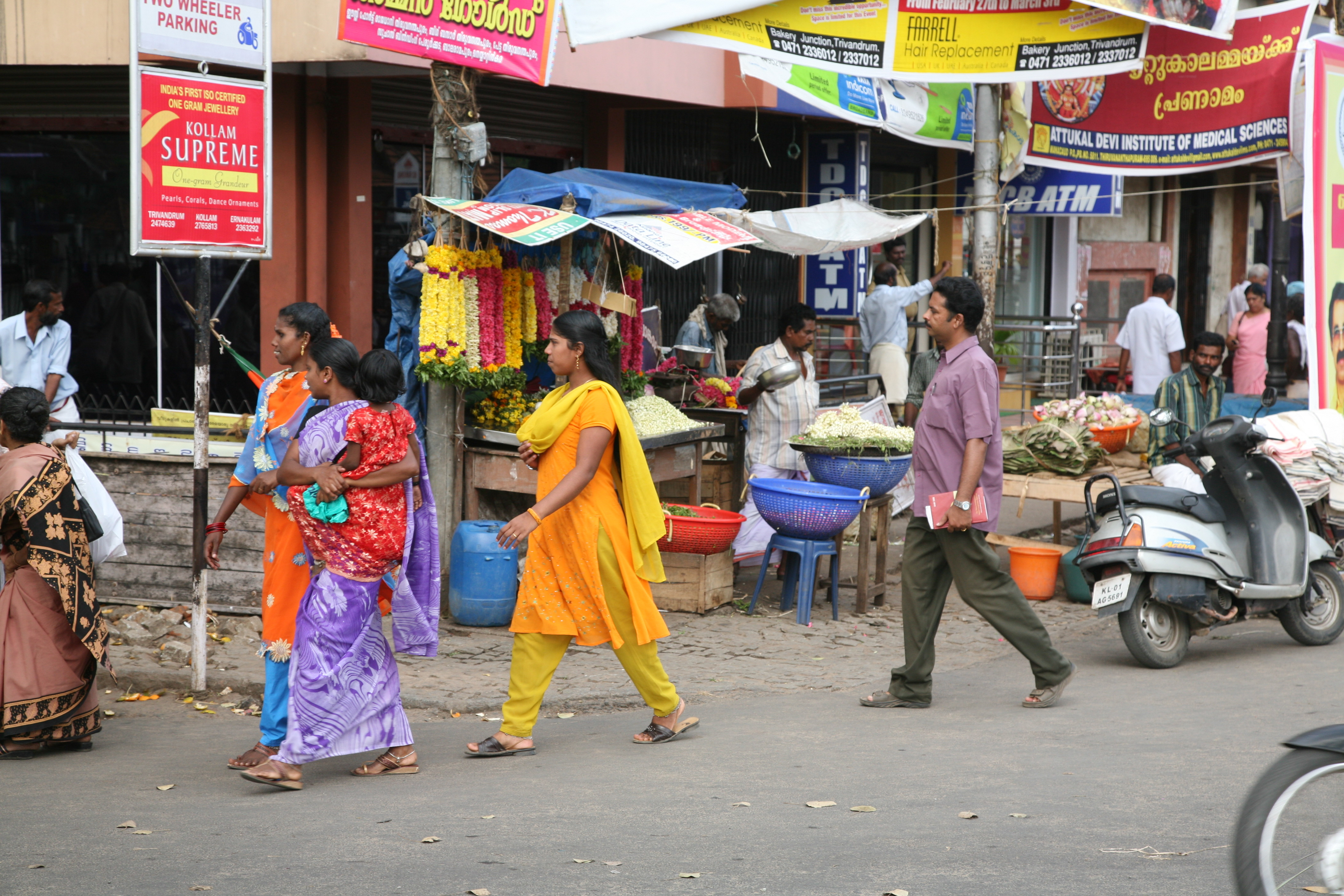 Street life in Thiruvananthapuram